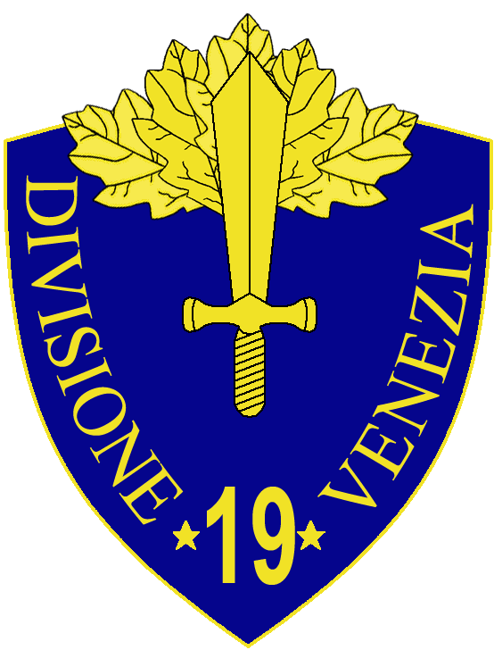 19a Divisione Fanteria Venezia insignia, Regio Esercito, Italy, WWII